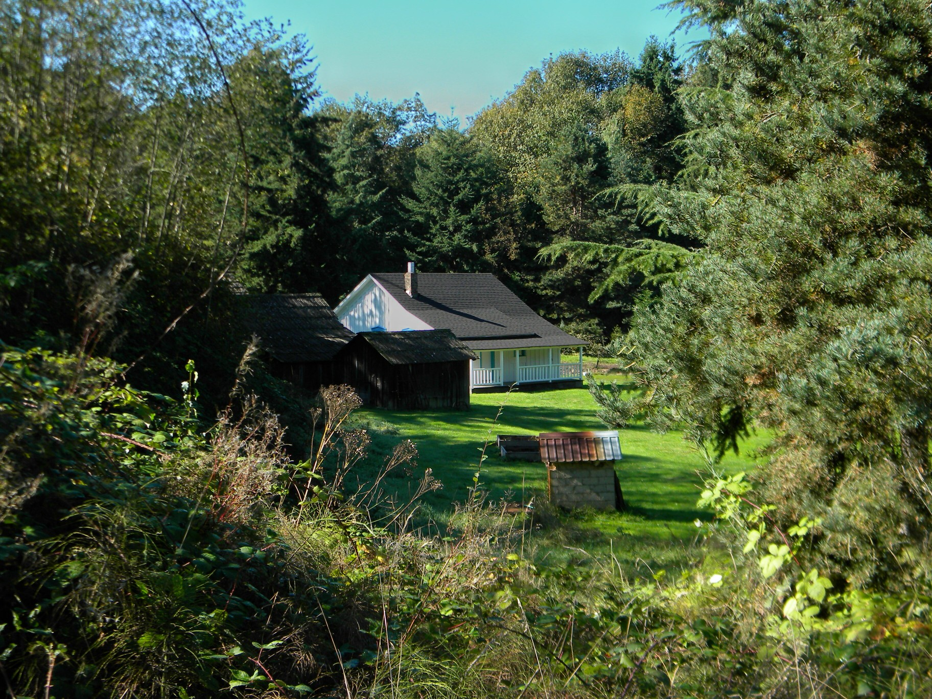 Pacific Coast Company House No. 75 A challenge to locate and no close access.